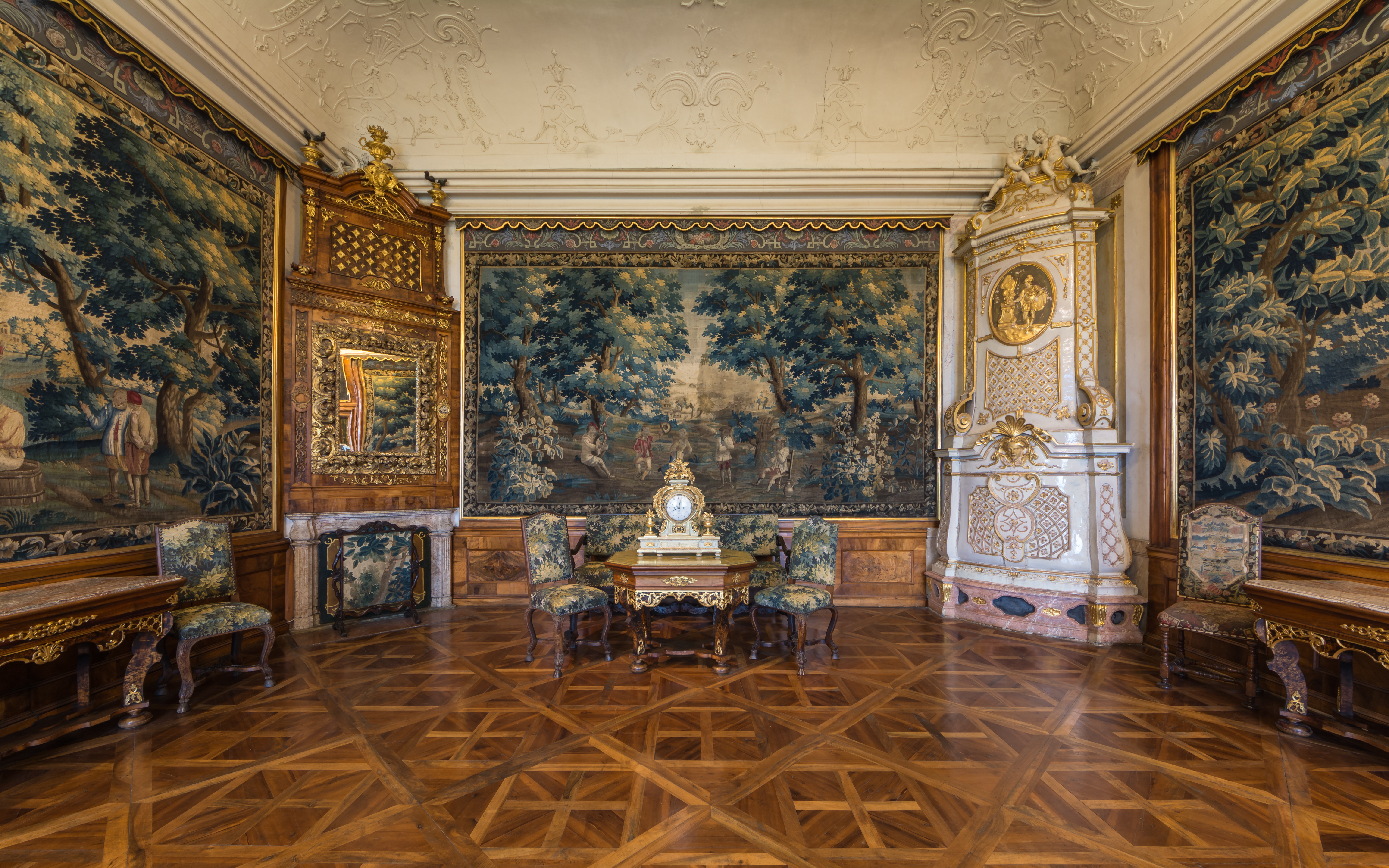 Gobelinzimmer (tapestry room) in the imperial wing of Göttweig Abbey, Lower Austria